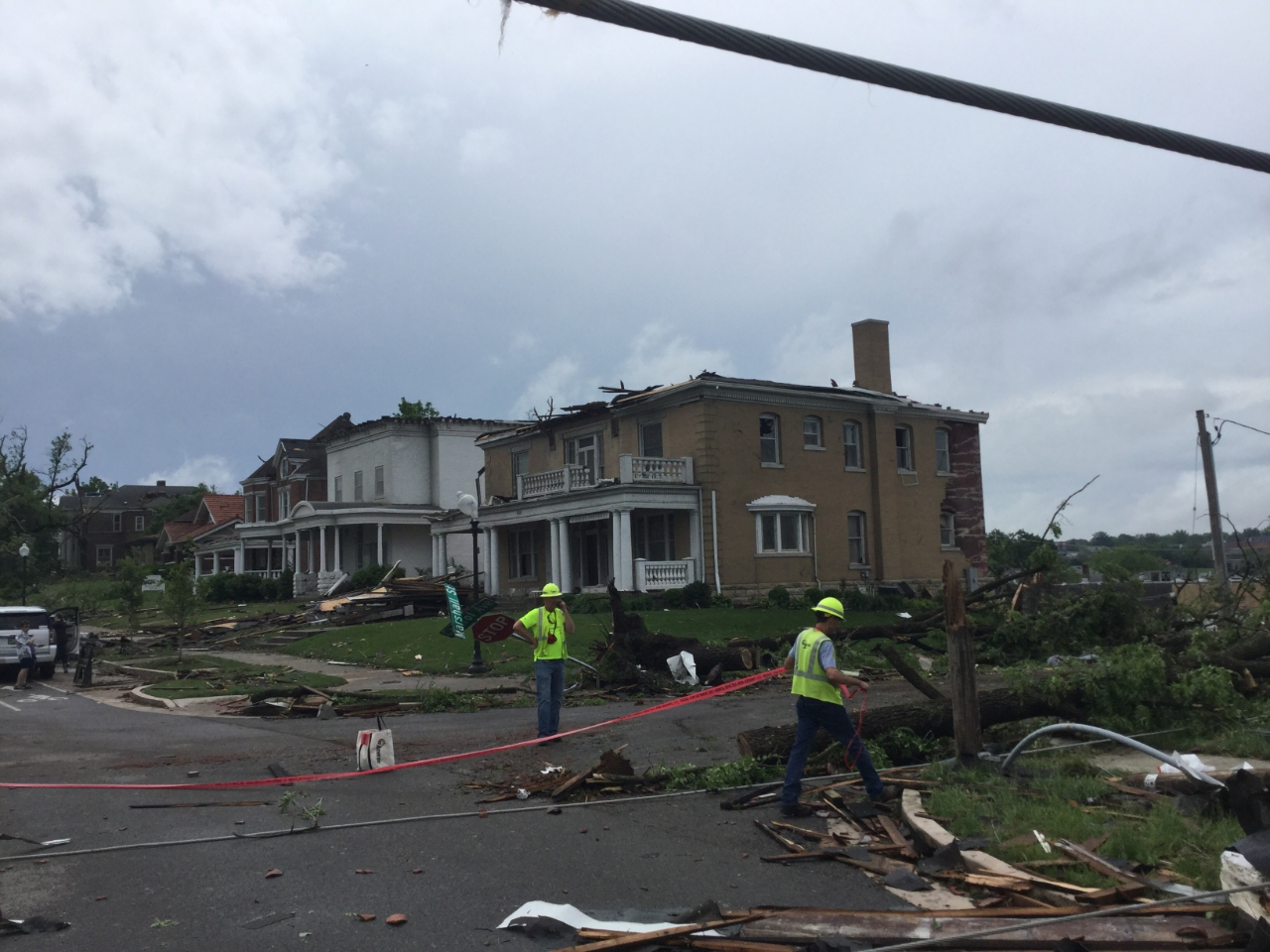 Damage to homes in a suburban neighborhood in Jefferson City, Missouri, from a tornado on May 22, 2019